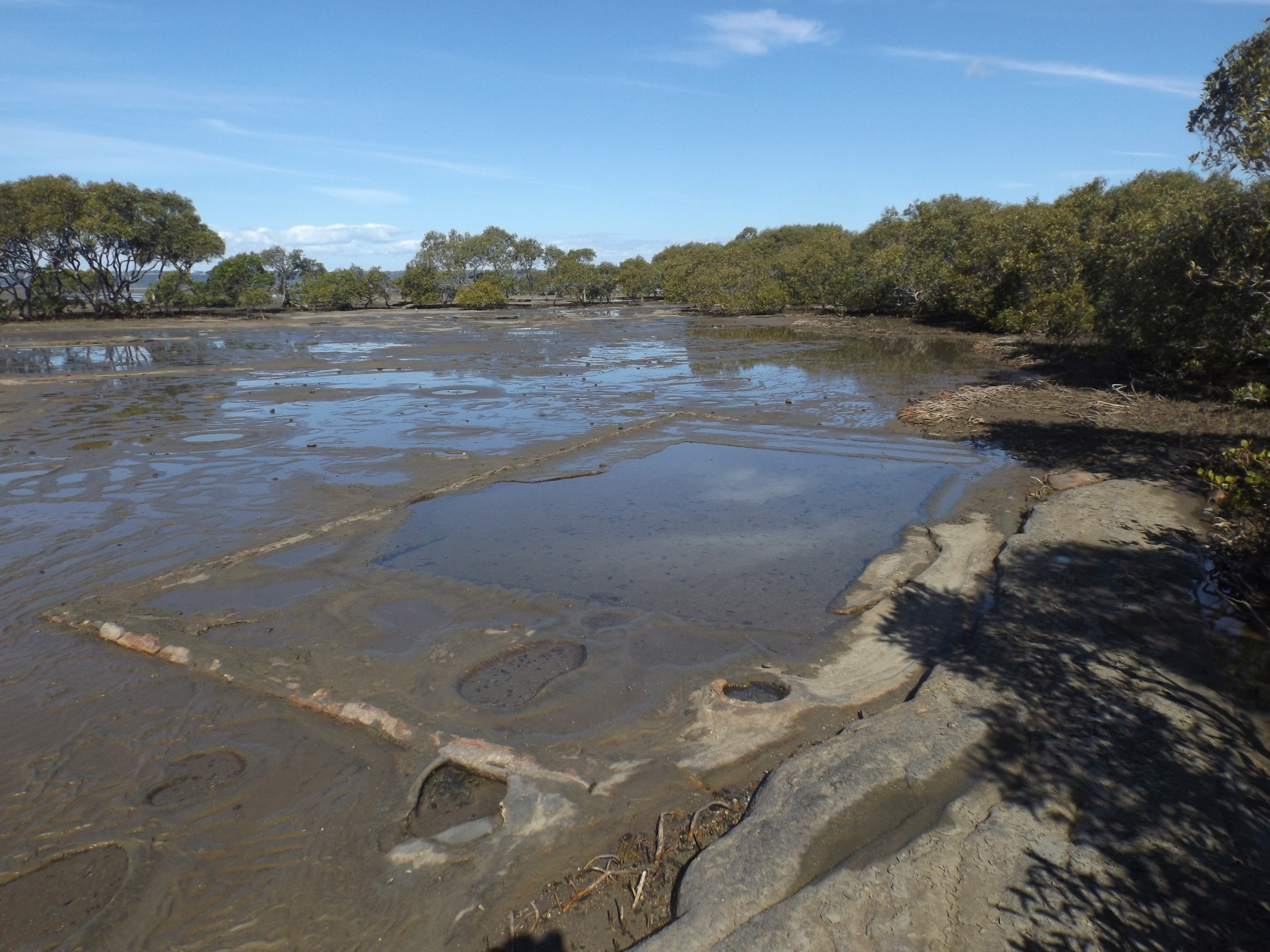 Photo of Deception Bay Sea Baths at Deception Bay, Moreton Bay Region, Queensland, Australia.